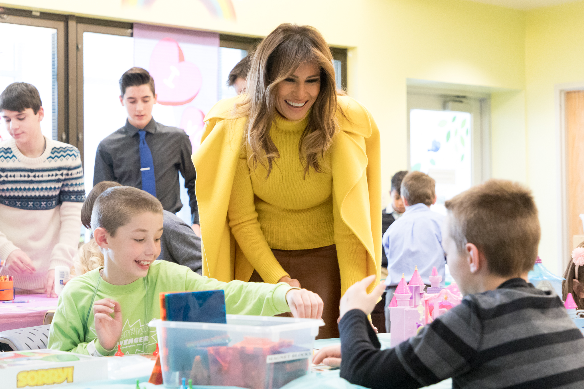 First Lady Melania Trump at Cincinnati Children’s Hospital | February 5, 2018 (Official White House Photo by Andrea Hanks)